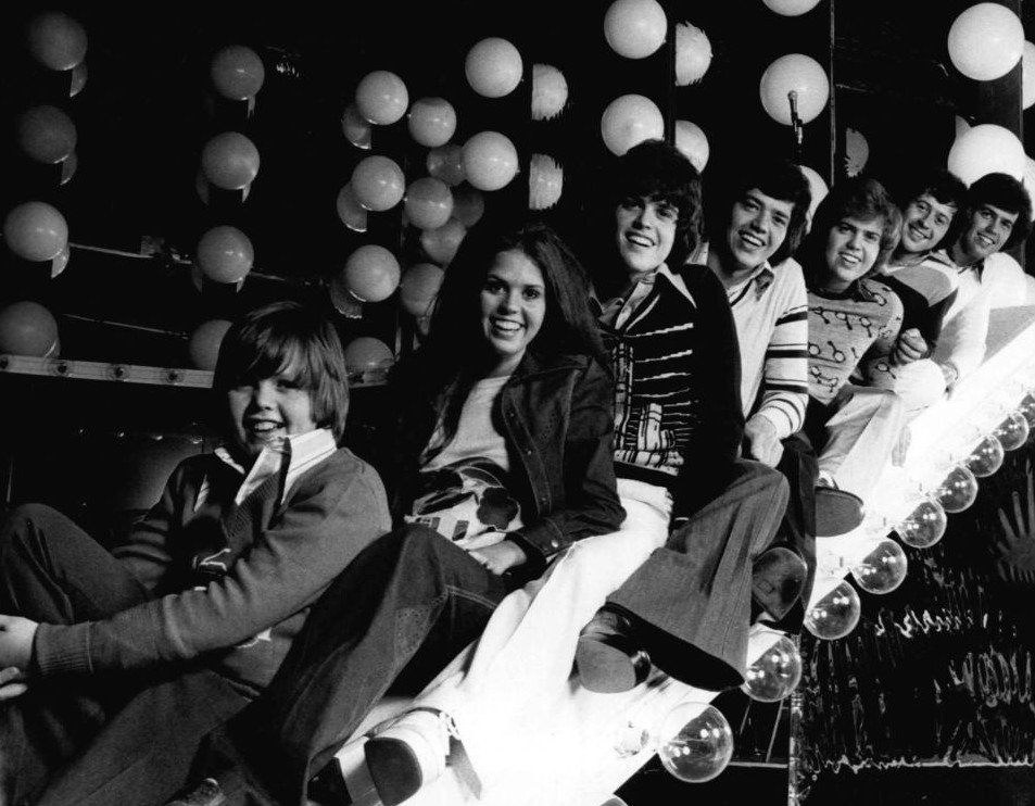 Photo of the performing members of the Osmond family from a 1974 television special. They are posed according to age, from youngest to oldest. From left-Jimmy, Marie, Donny, Jay, Merrill, Wayne and Alan.